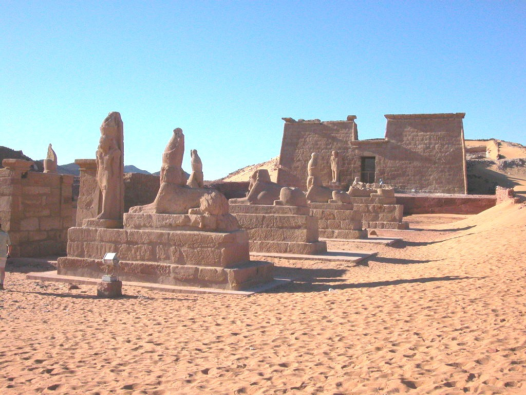 The temple of Wadi es-Sebua (Nubia): The sphinx avenue and third pylon